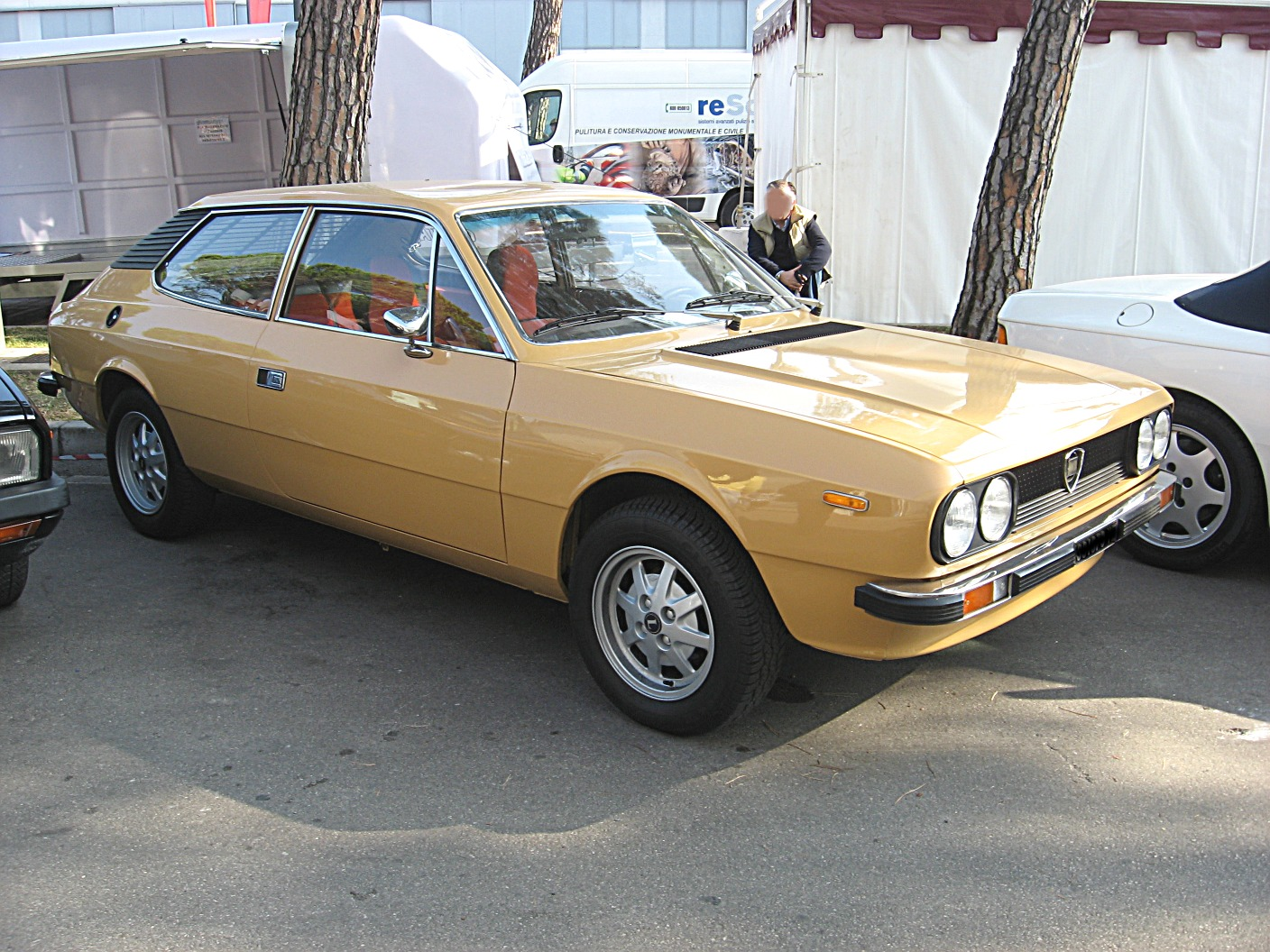 Subject: Lancia Beta HPE Date:October 26th, 2008 Event: Auto e Moto d'Epoca 2008 Place/Country: Padova, Italy I release all rights in the public domain.